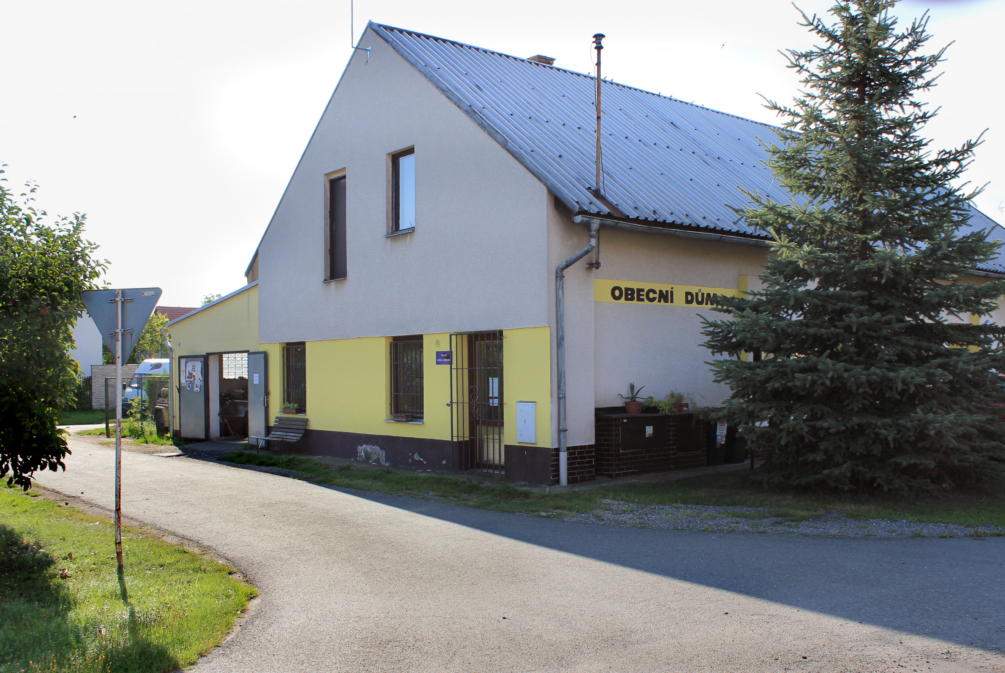 Municipal office in Velenice, Czech Republic.